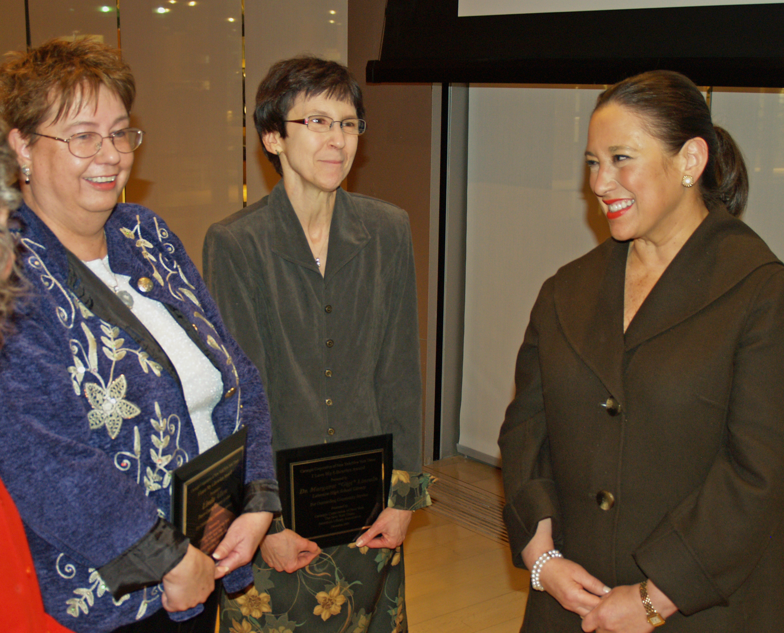 Linda Allen and Margaret "Gigi" Lincoln talk to Janet L. Robinson, President and CEO of the New York Times Company at the 2008 I Love My Librarian! awards. Allen and Lincoln were recipients of the award, which is co-sponsored by the American Library Association, the New York Times and the Carnegie Corporation